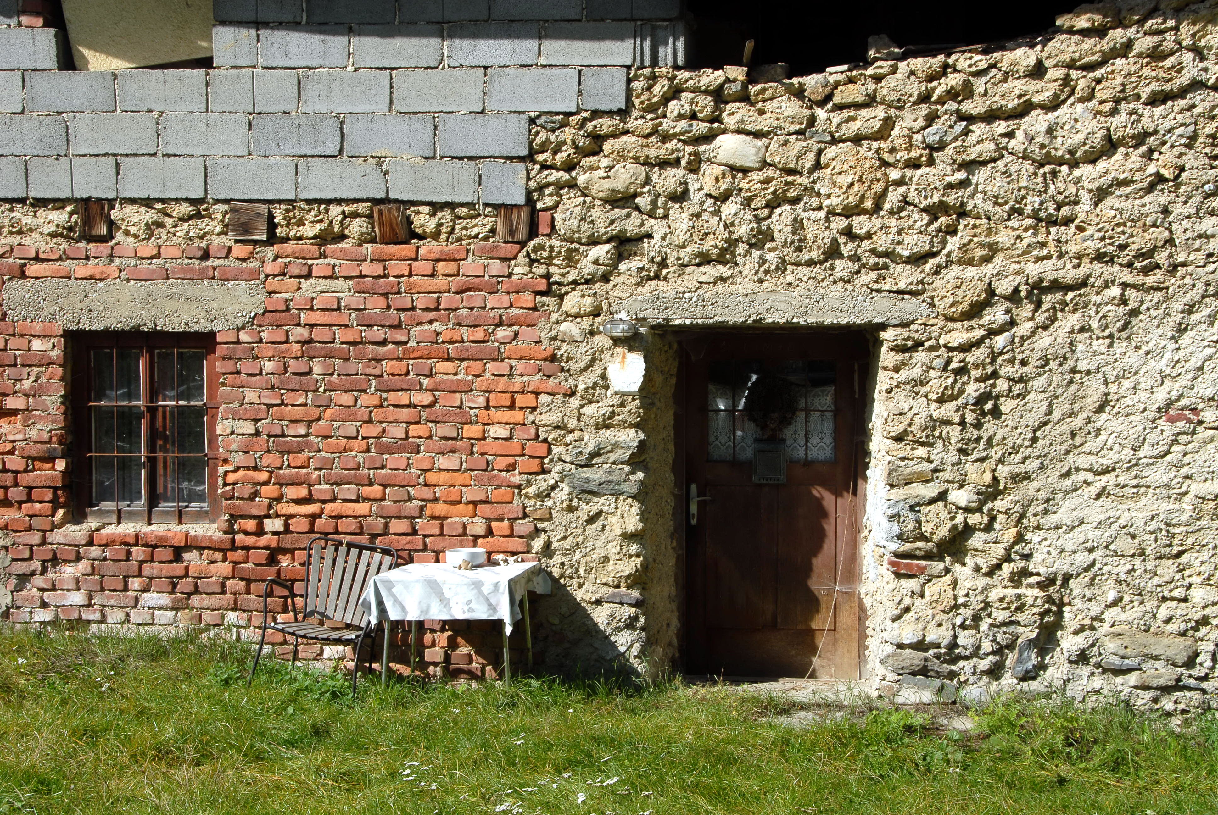 Characteristic shabby homestead at Sabuatach in the community Grafenstein, district Klagenfurt Land, Carinthia, Austria